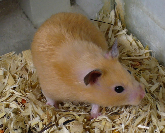 "Peach" a pet Golden Hamster